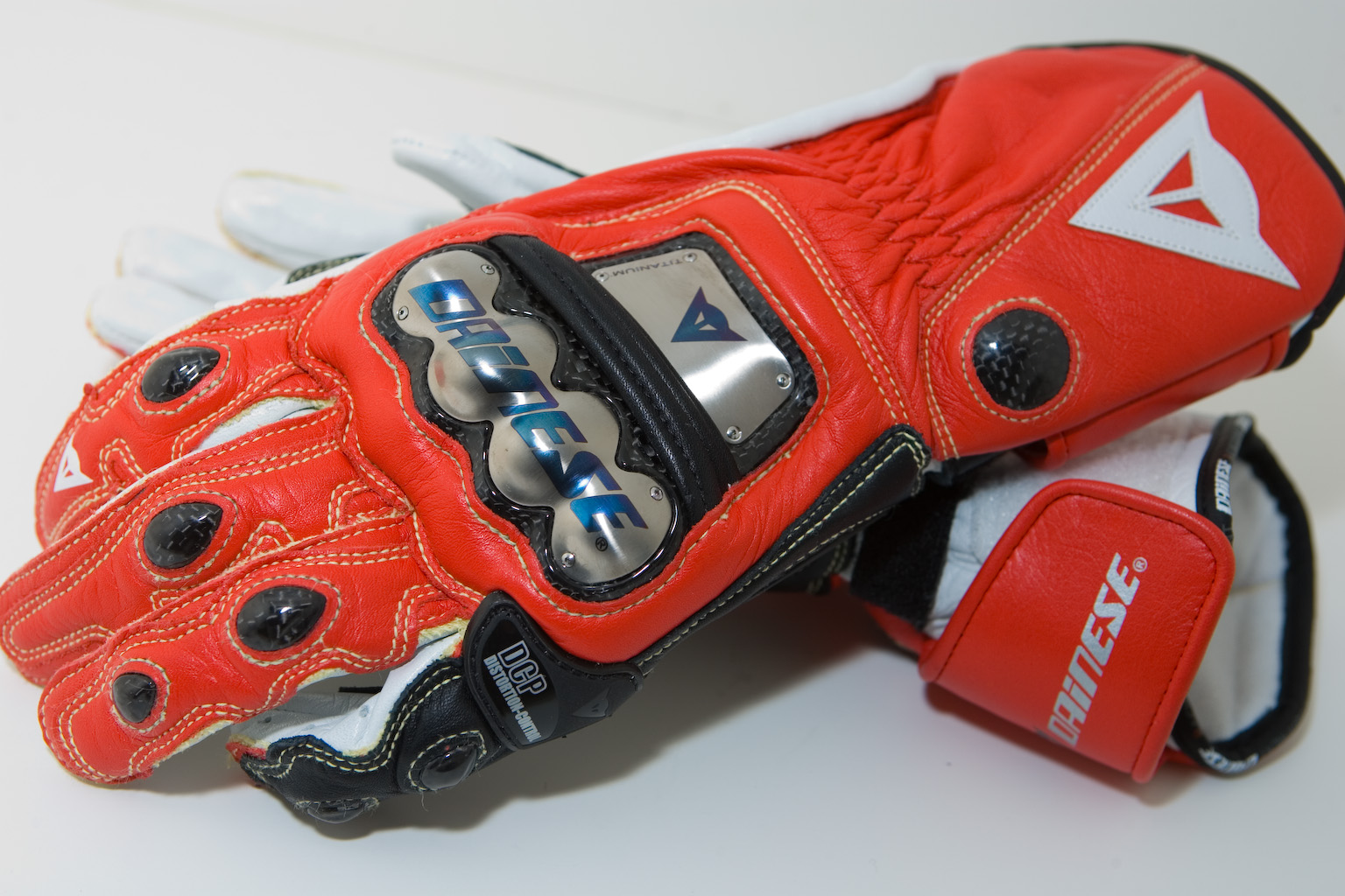 Armoured racing motorcycle gloves by Dainese